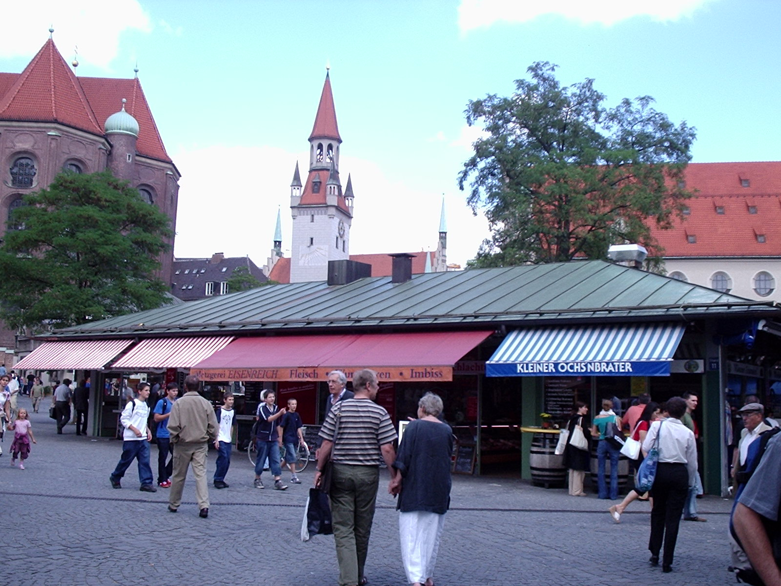 The Viktuals Market in Munich plays host to a large number of stalls selling all kinds of foodstuffs, both exotic and home grown. A number of the old buildings of central Munich can be seen in the background.